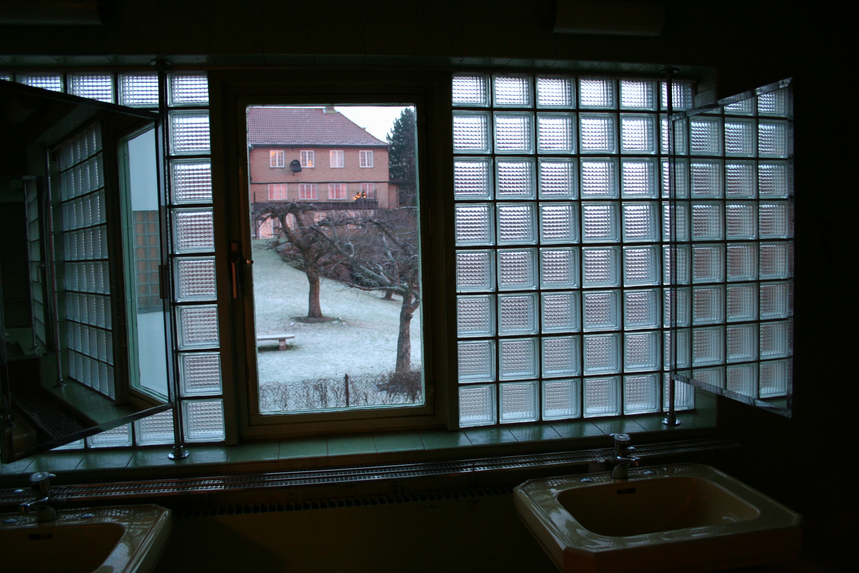 Villa Stenersen, Oslo, Norway. Bathroom